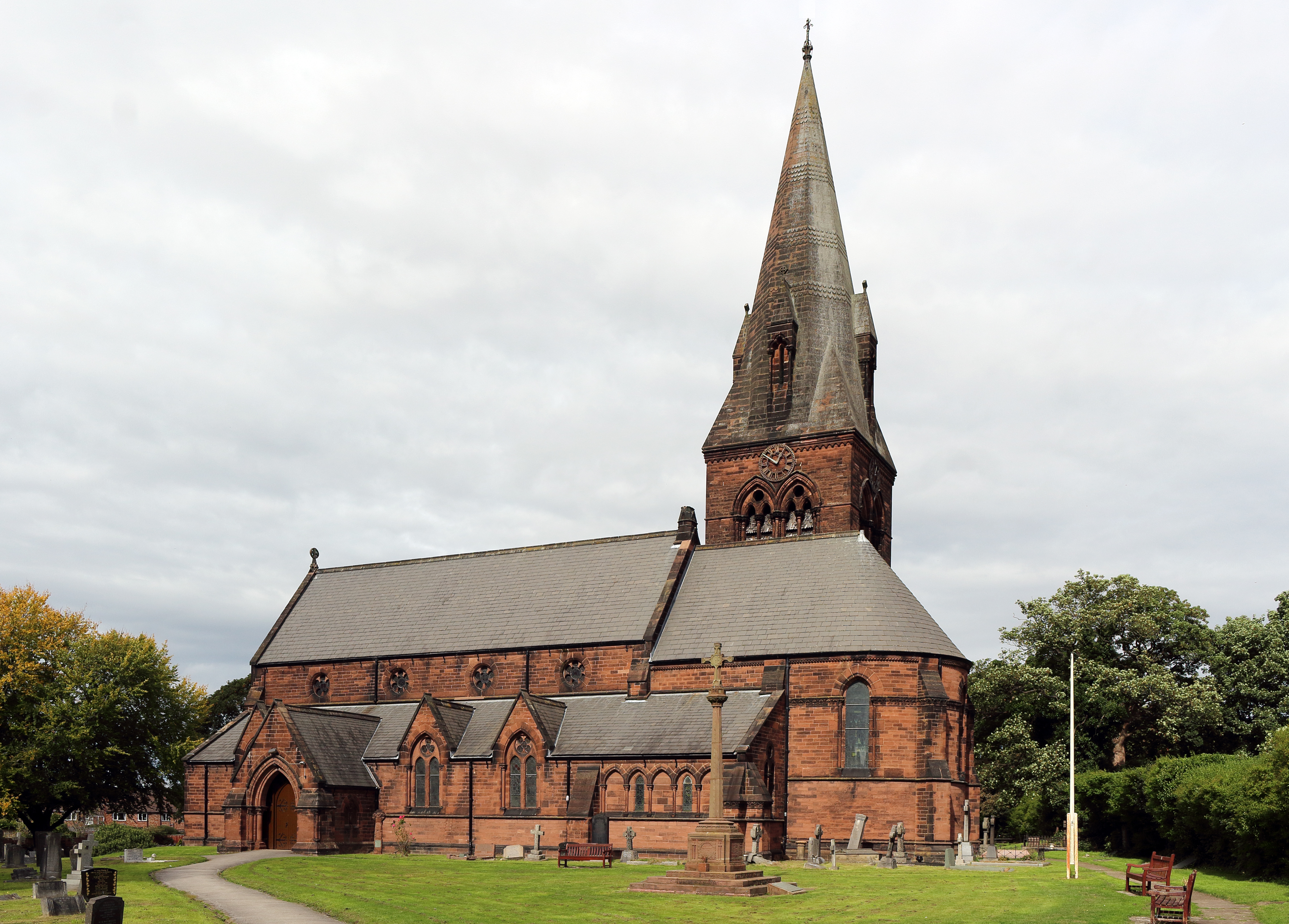 Grade II* listed church in Bromborough, Wirral, viewed from the entrance to the churchyard